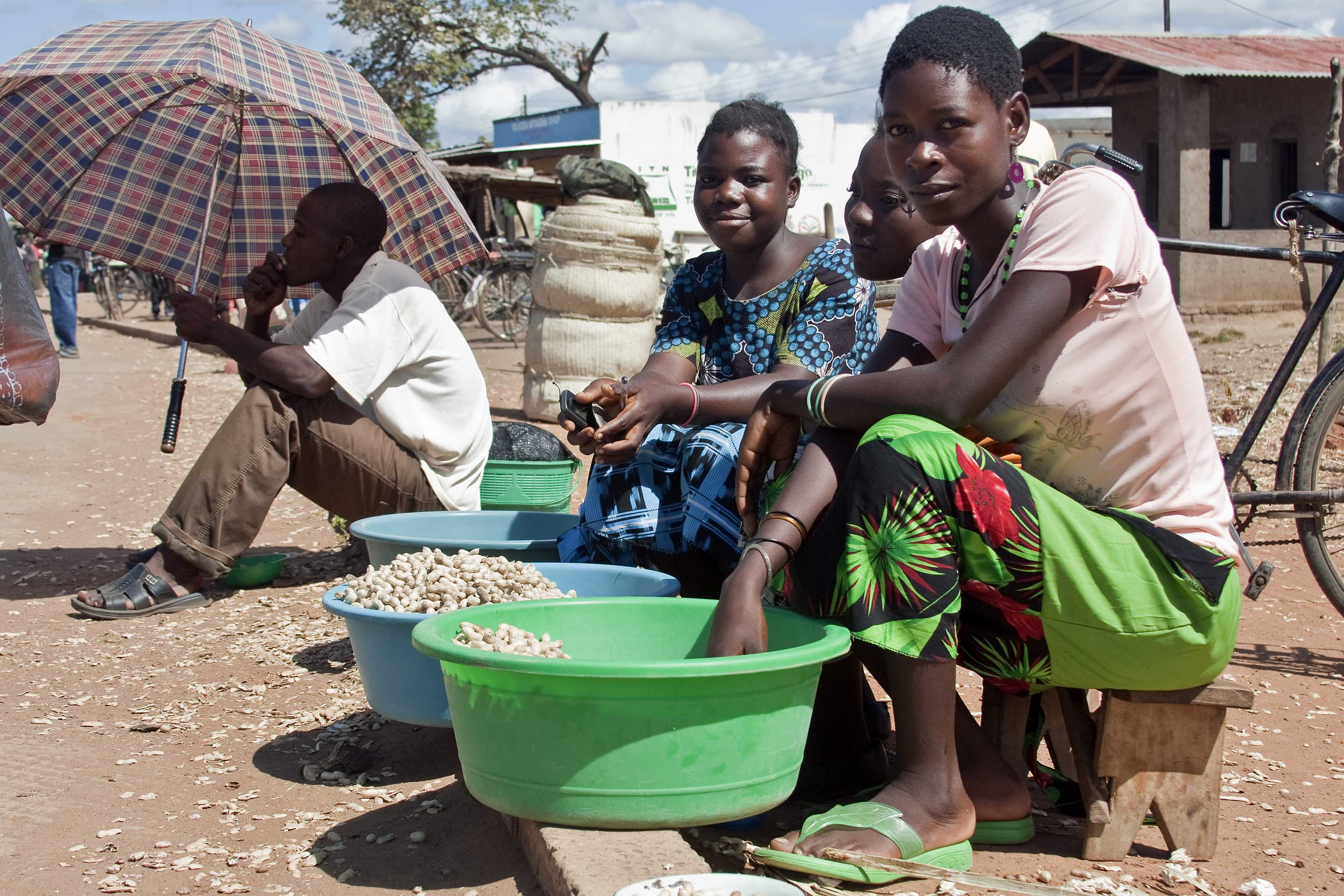 These women in Salima District, Malawi, boil groundnuts athome and carry their tubs to the Siyasiya roadside market.